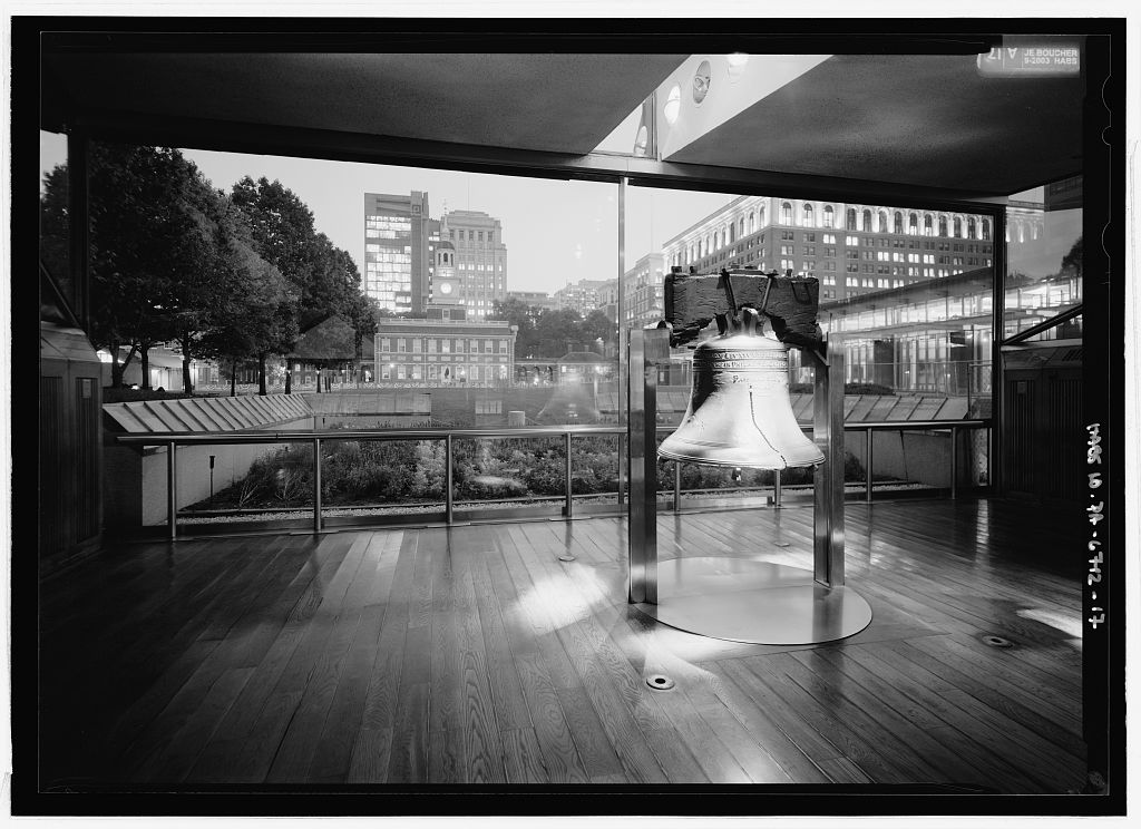 Bell Chamber, Liberty Bell Pavilion (1975), Independence National Historical Park, Philadelphia, Pennsylvania, Romaldo Giurgola, architect.